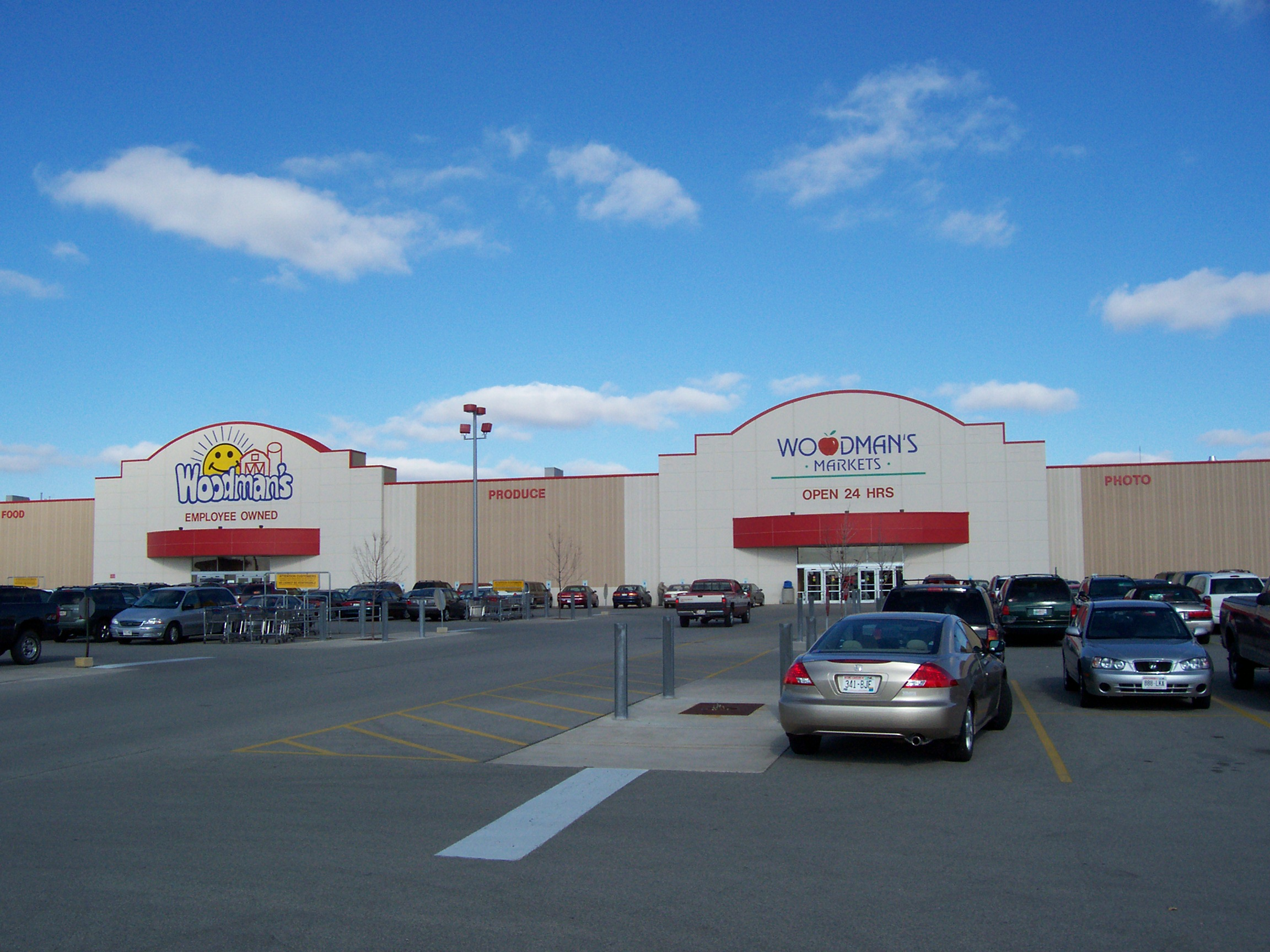 Woodman's Food Mart location in Appleton, Wisconsin, USA